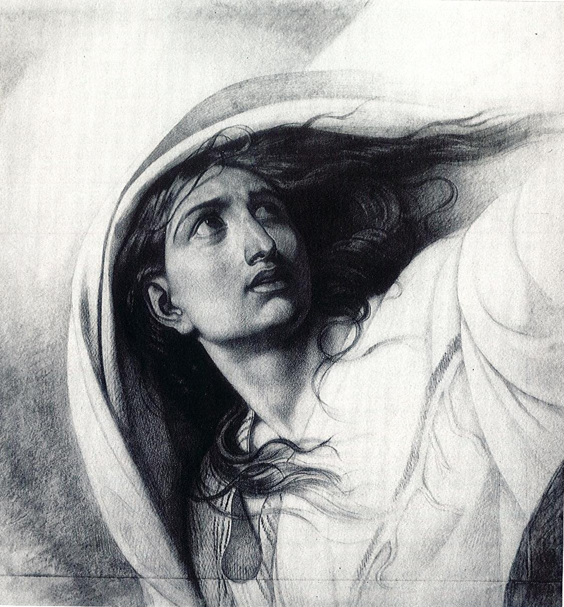 Woman's head (drawing for "Brazen Serpent", by Fyodor Bruni, 1841 or earlier)